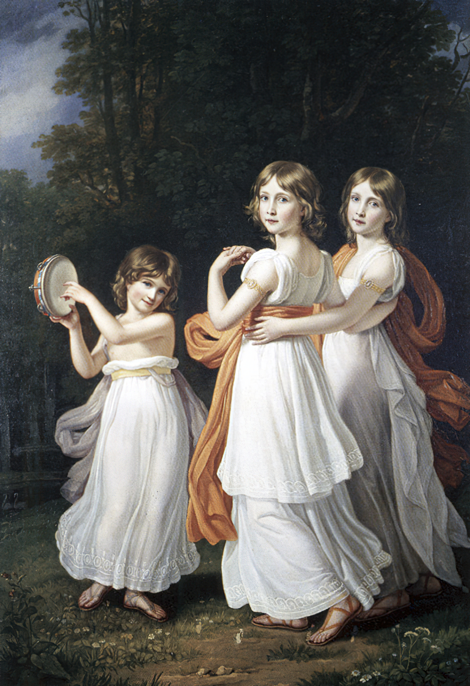 Portrait of the youngest daughters of Maximilian I of Bavaria (Sophie, Marie, and Ludovika)